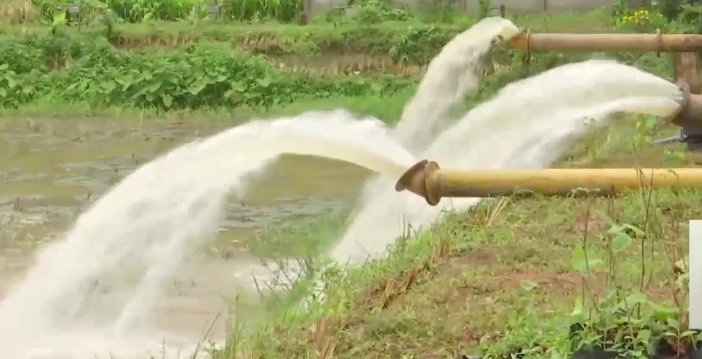 Pumps are used to divert water from lakes that drain the Tham Luang cave, in an effort to reduce water levels in the cave during June–July 2018 rescue operations.